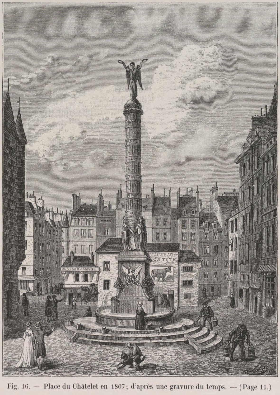 An engraving representing the Place du Châtelet in 1807. Following the demolition of the Châtelet castle in 1802, Napoléon had a fountain, shown here, installed in the Place to commemorate his victories.